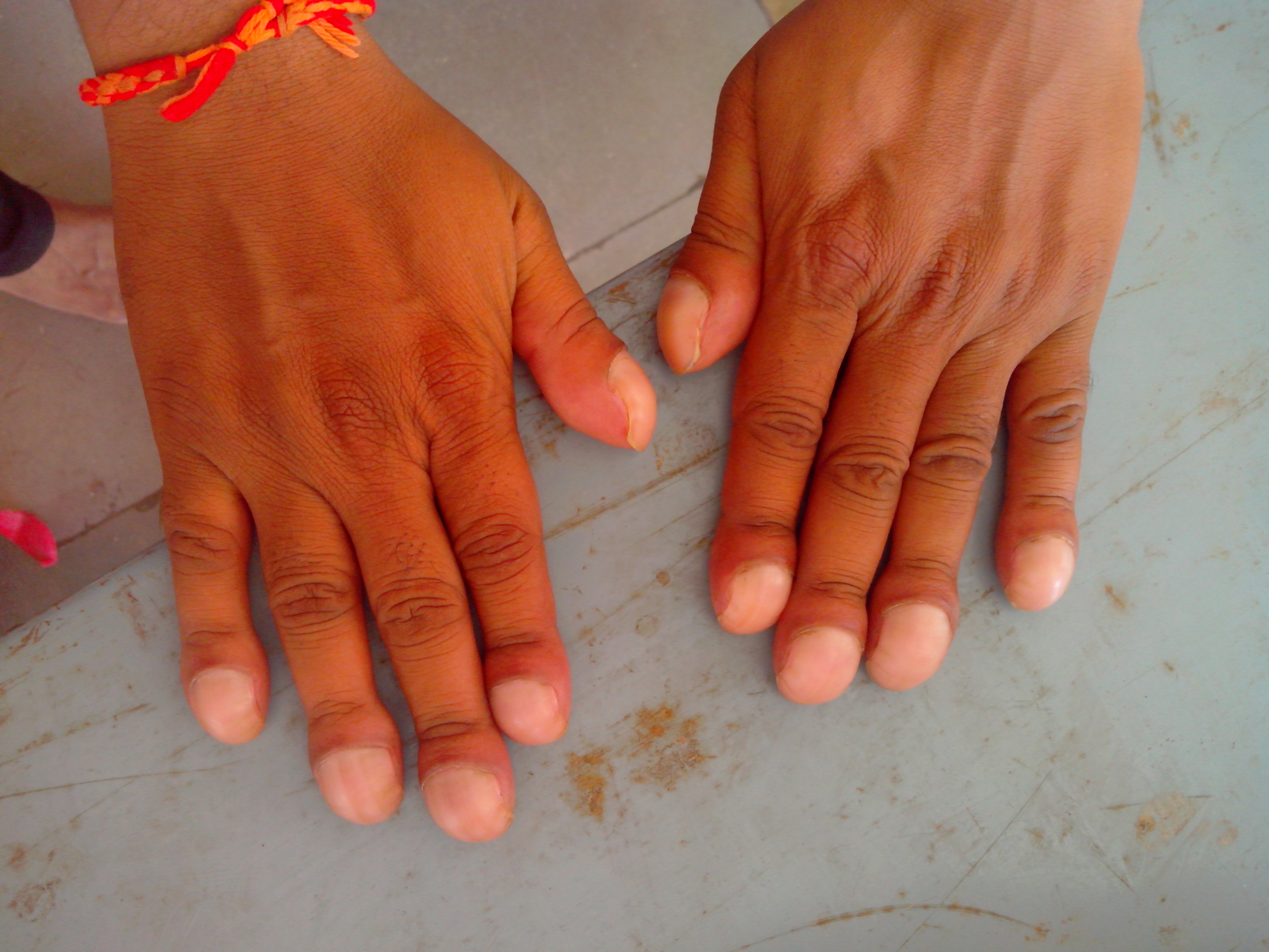 Clubbing if fingers noted of a patient during routine dental checkup